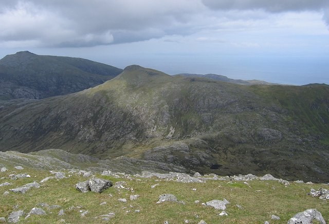 North east ridge of Beinn Mhor. Ridge falling to Bealach Sheilliosdail (Halisdale) the pass connecting Beinn Corradail and Beinn Mhor. Beinn Corradail is sunlit. The ridge is rocky, but easy going.